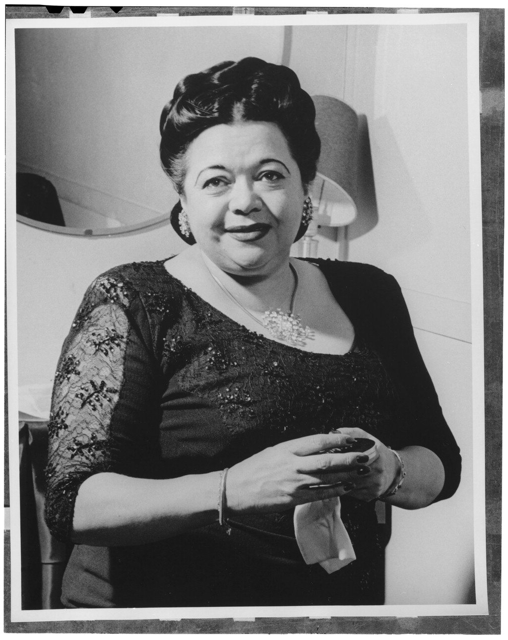 Gottlieb, William P., 1917-, photographer. [Portrait of Mildred Bailey, Aquarium, New York, N.Y., ca. Aug. 1946] 1 negative : b&w ; 4 x 5 in. Notes: Gottlieb Collection Assignment No. 018 Reference print available in Music Division, Library of Congress. Purchase William P. Gottlieb Forms part of: William P. Gottlieb Collection (Library of Congress). Subjects: Bailey, Mildred Women jazz musicians--1940-1950. Jazz singers--1940-1950. Aquarium Format: Portrait photographs--1940-1950. Film negatives--1940-1950. Rights Info: Mr. Gottlieb has dedicated these works to the public domain, but rights of privacy and publicity may apply. Repository: (negative) Library of Congress, Prints & Photographs Division, Washington D.C. 20540 USA, (reference print) Library of Congress, Music Division, Washington D.C. 20540 USA, Part Of: William P. Gottlieb Collection (DLC) 99-401005 General information about the Gottlieb Collection is available at Persistent URL: Call Number: LC-GLB13- 0040 This work is from the William P. Gottlieb collection at the Library of Congress. Rights and restrictions. In accordance with the wishes of William Gottlieb, the photographs in this collection entered into the public domain on February 16, 2010.